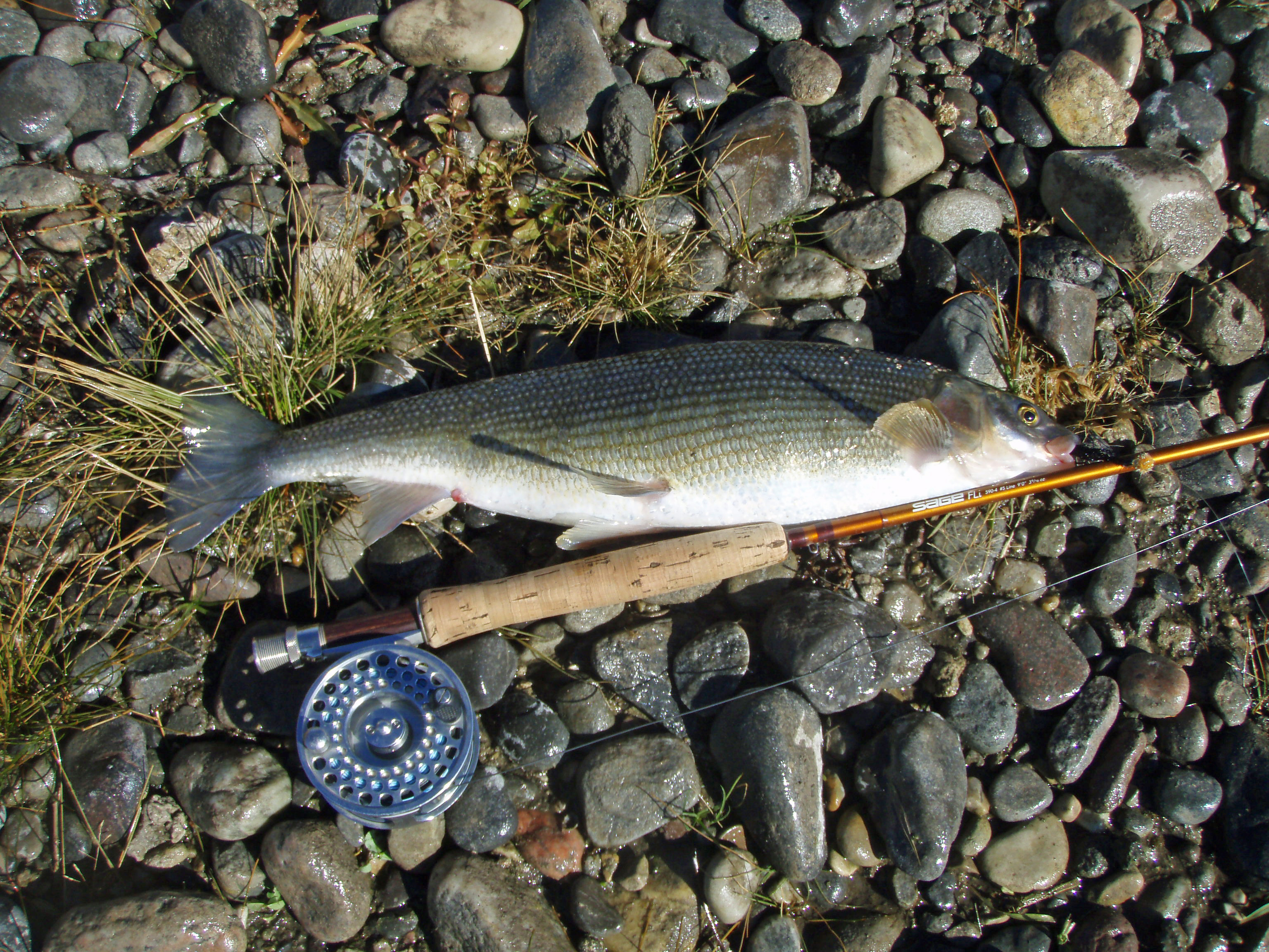 Mountain whitefish (Prospium williamsoni), East Gallatin River, Montana, 2009